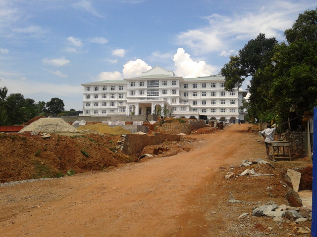 SAITM Hospital Under Construction (20-02-2013) - Photograph I